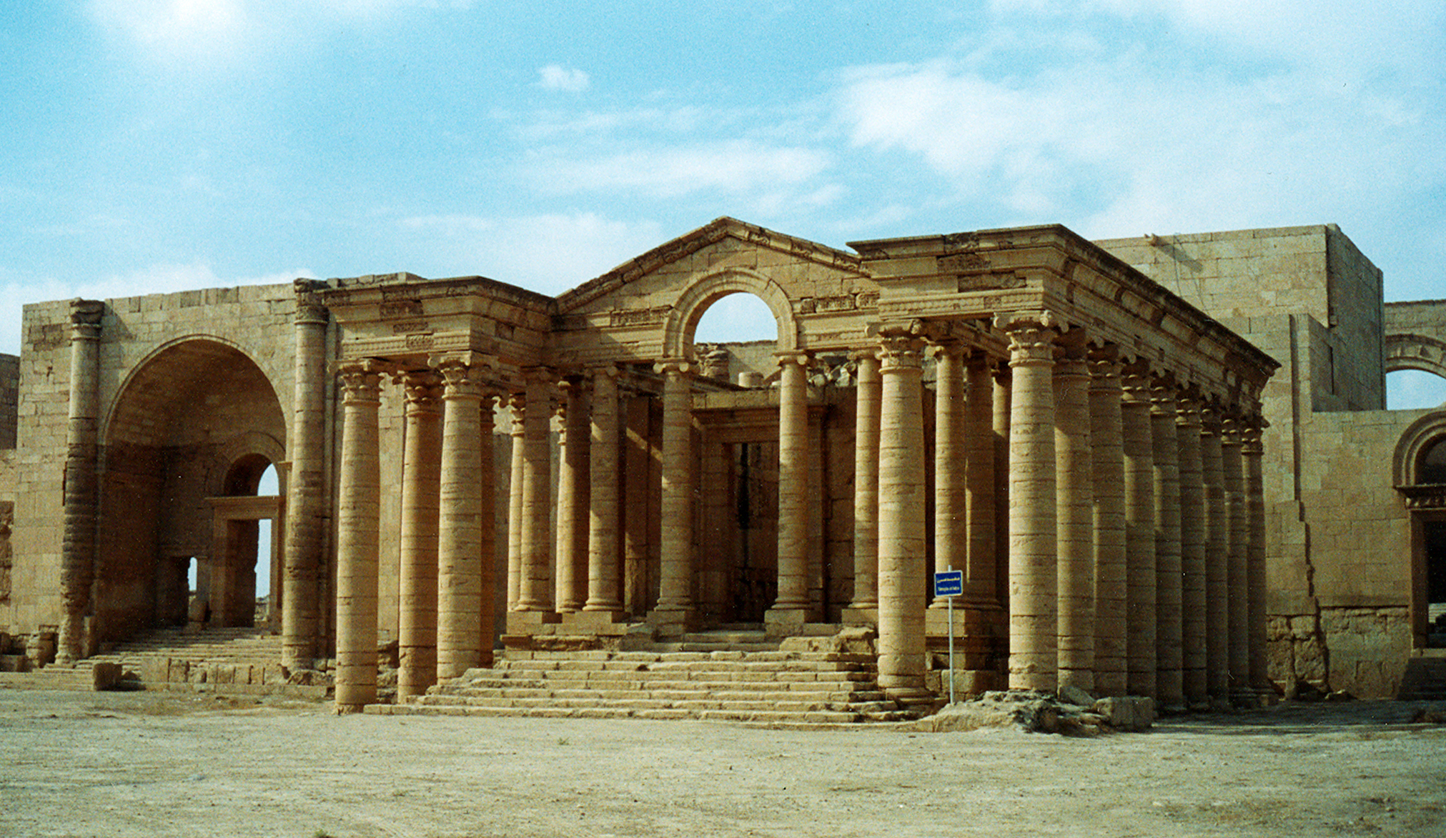 Hatra (Iraq)